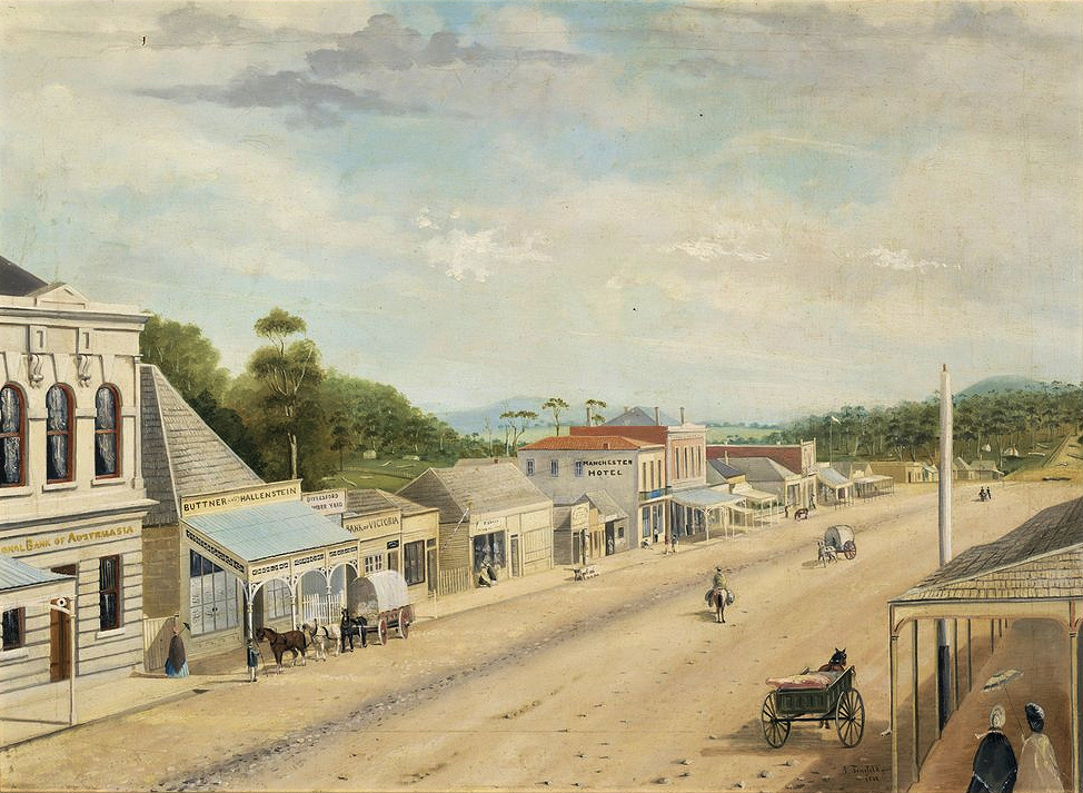 Main Street, Daylesford, oil on canvas laid down on board, 57.0 x 76.3 cm, by J. Tensfeld